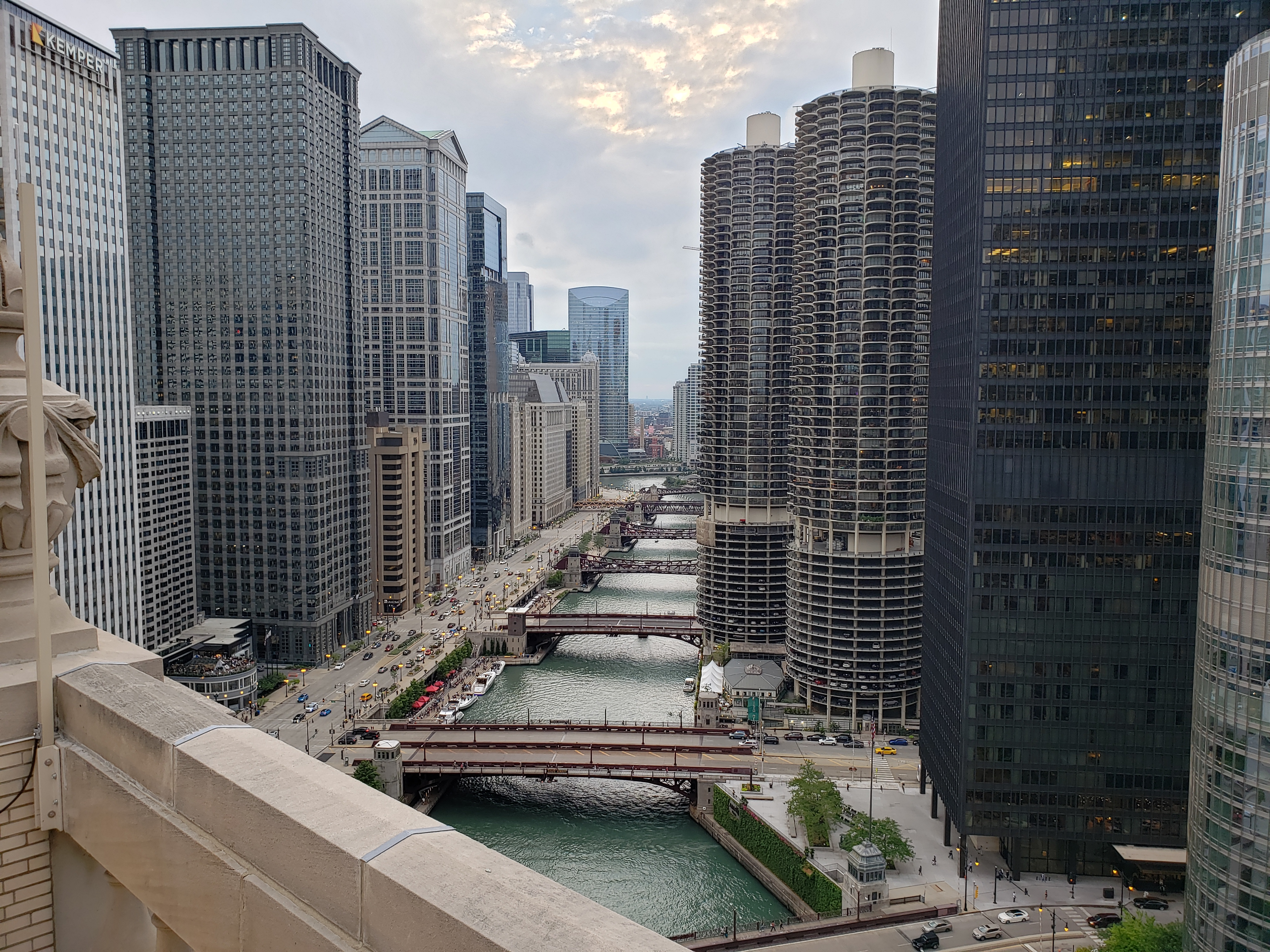 View of the Chicago River from the London House rooftop bar in Chicago, Illinois